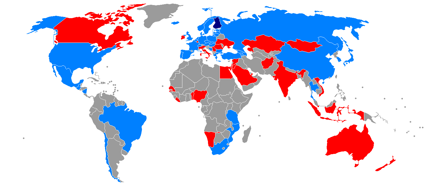 Map of countries visited by Finland's President Tarja Halonen (in office from 2000 to 2012). Blue countries visited for the first time during her 1st term and red countries visited for the first time during her 2nd term.